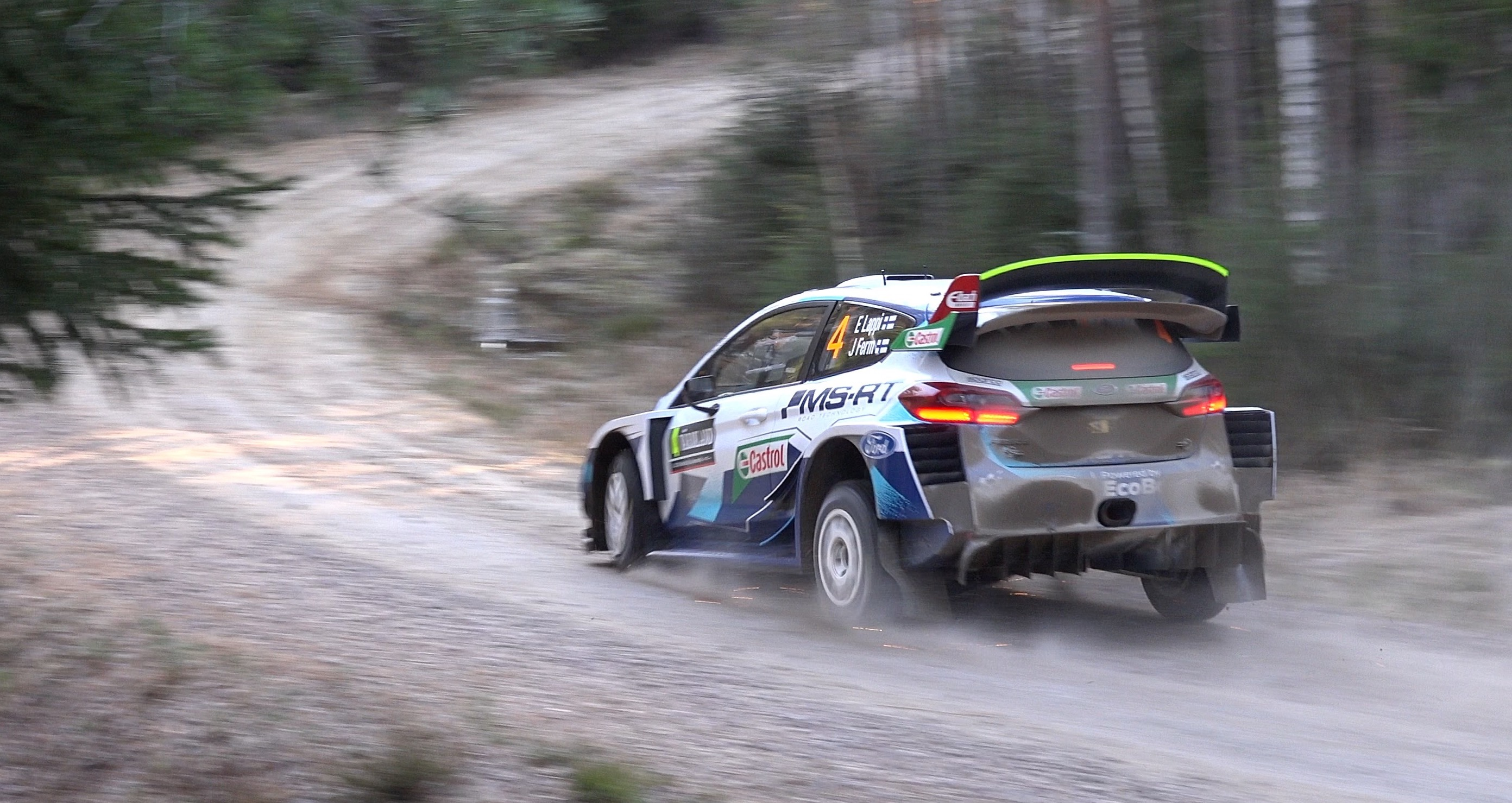 Lappi at Rally Sweden 2020.